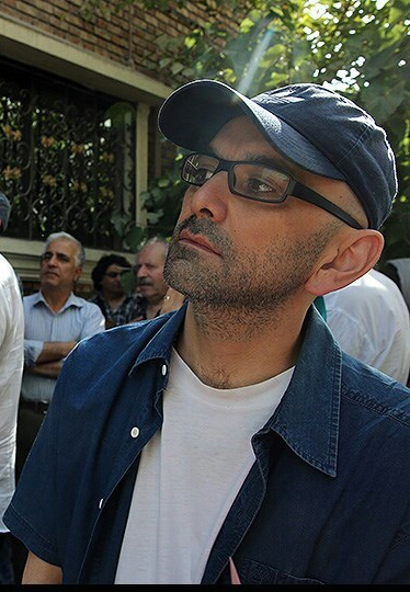 Habib Rezaei - 2013